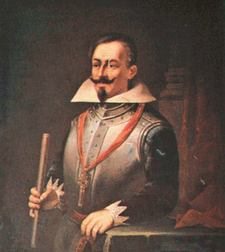 La Colecciòn de Retratos de los Presidentes del Coloniaje. The collection of Portraits of the Governors of Chile is in the Museo Histórico Nacional (Chile) and was commissioned by Benjamín Vicuña Mackenna for the 1873 Colonial Exhibition and painted by various artists. It replaces a series of portraits of Chile's colonial governors dating from the colonial era which was destroyed during the wars for independence. [1].